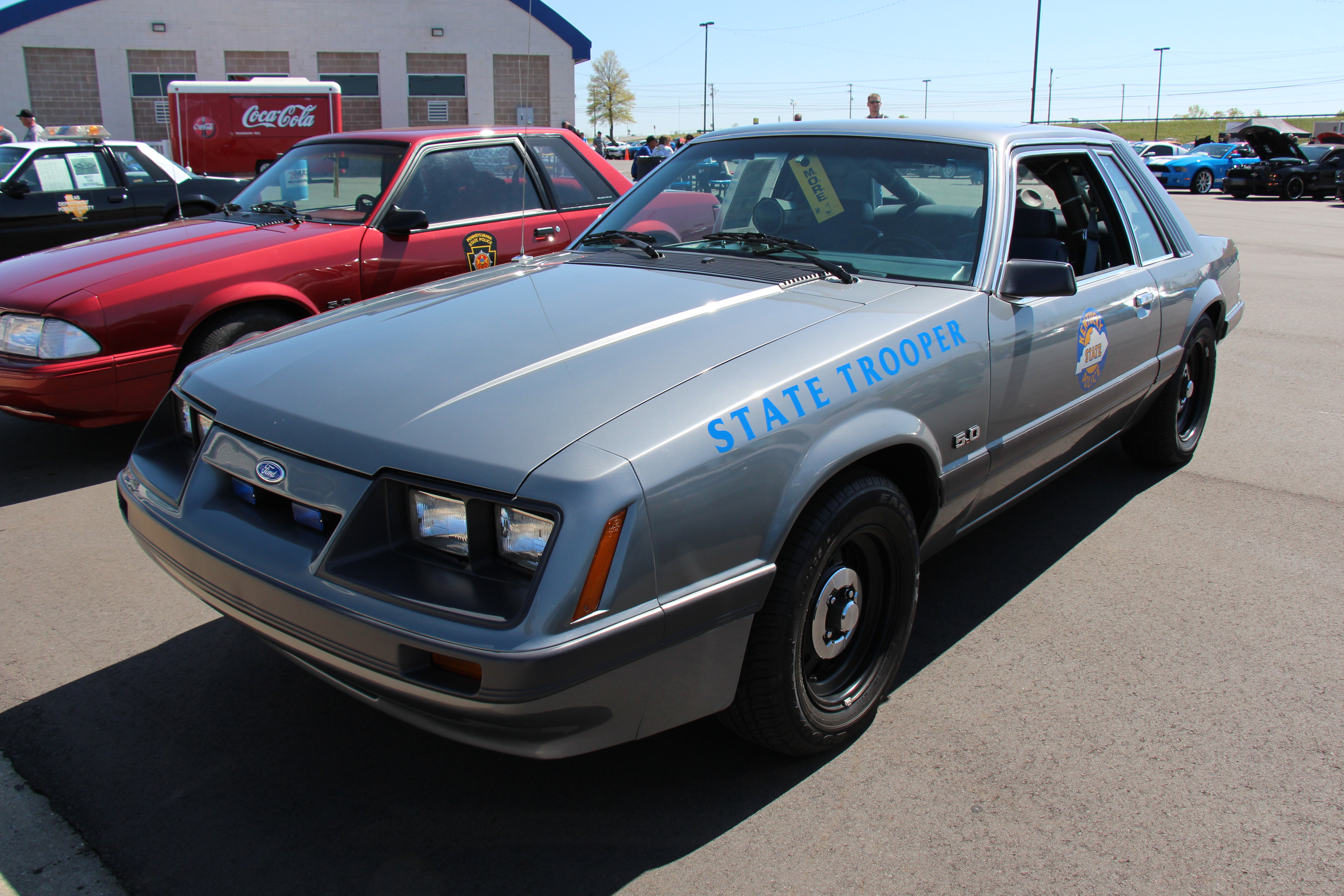 Medium Charcoal. The 3rd generation Fox body Mustang was made from 1979-1993, a minor update to front and rear in 1983, the eggcrate grille gone, and again in 1985, a more aero, no grille look, then a more substantial update in 1987 saw the grille and quad headlights replaced by modern single headlights. In 1985 the Mustang was available again in coupe, hatchback and convertible. The L and Turbo GT were dropped leaving the LX, GT and SVO. The Ford Mustang SSP (Special Service Package) was a lightweight police car package on the Mustang produced between 1982-1993. They got the 210hp 5.0 V8 in a basic Coupe body. Photographed at the 50th Anniversary of the Mustang celebrations at the Charlotte Motor Speedway, April 2014